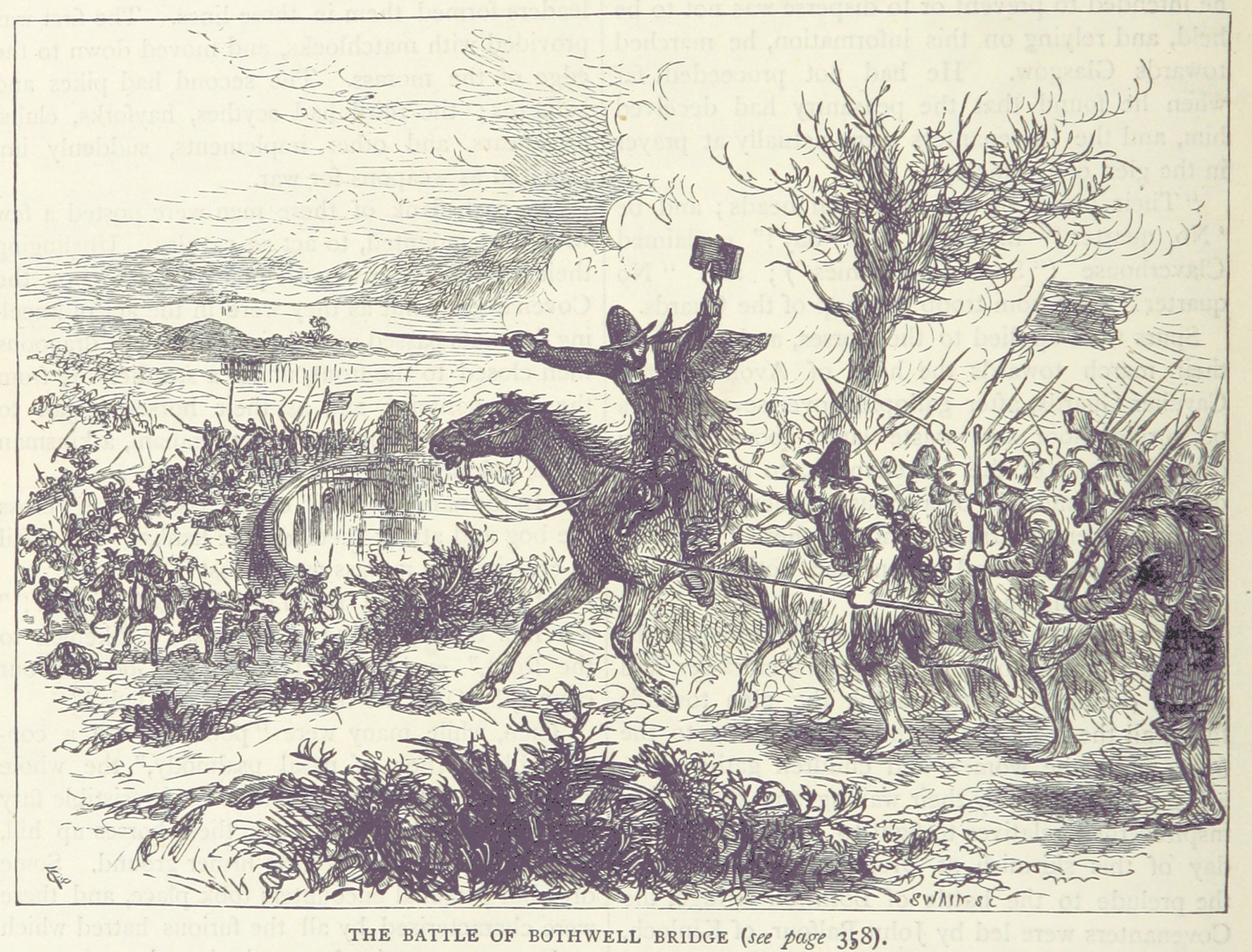 The 1679 Battle of Bothwell Bridge.